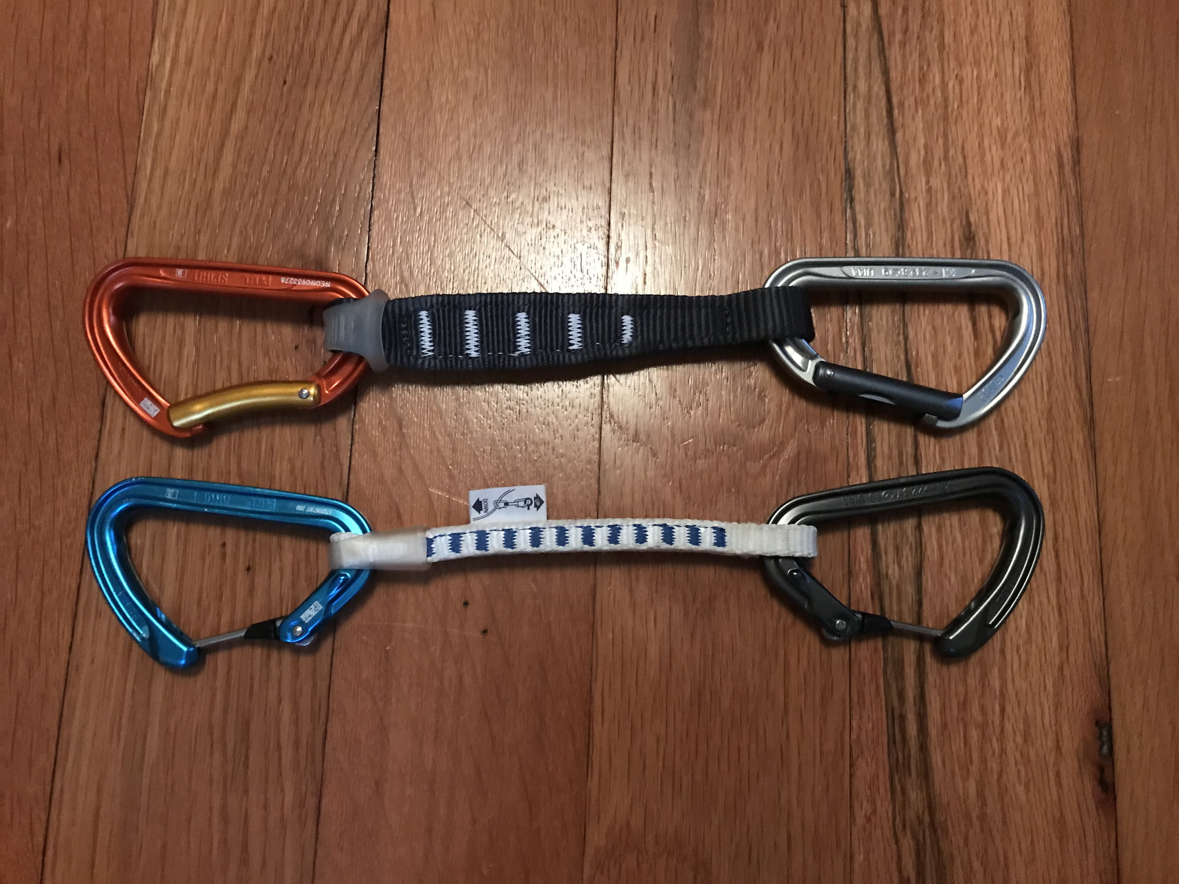 Petzl